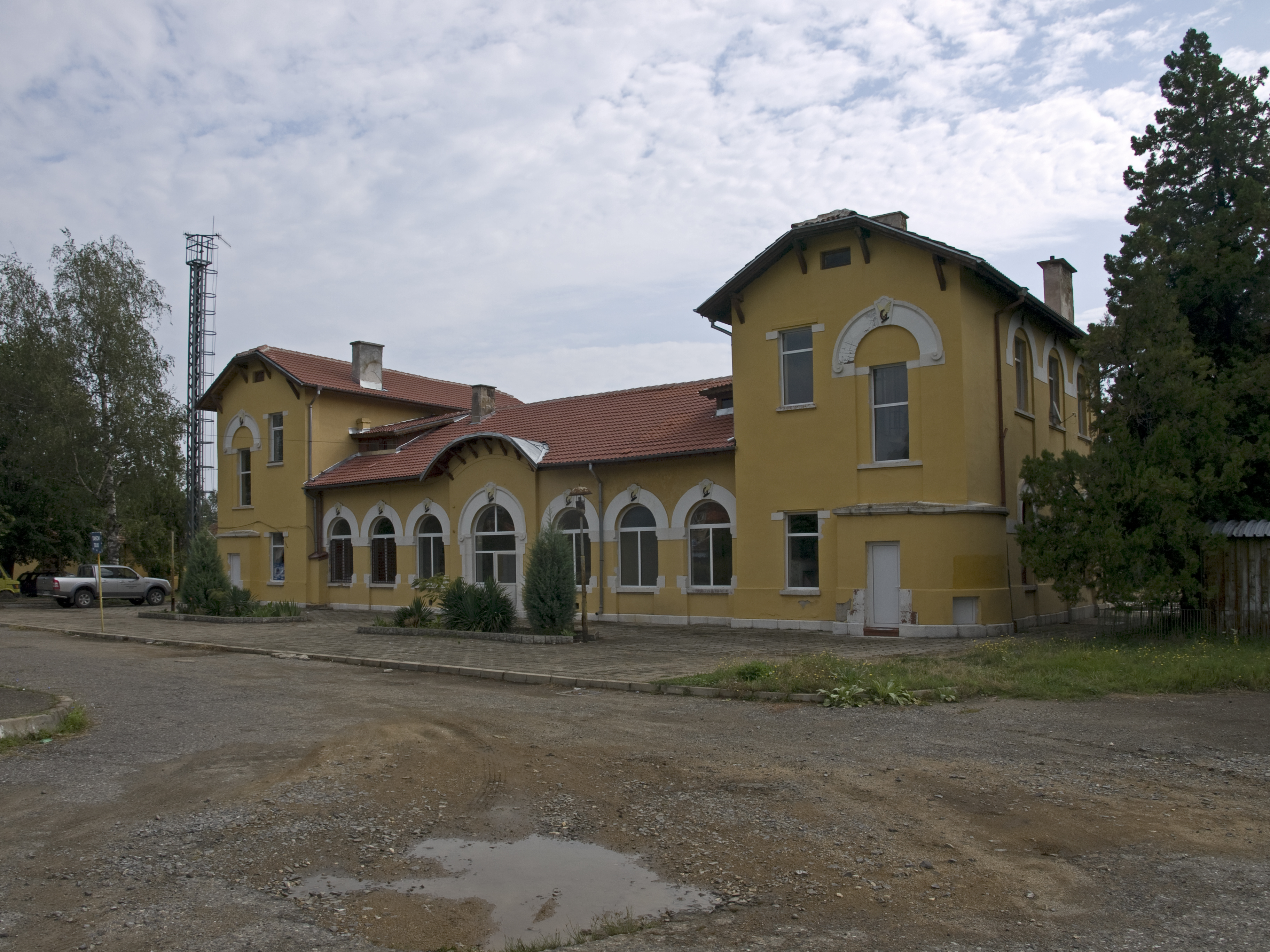 Berkovitsa railway station building